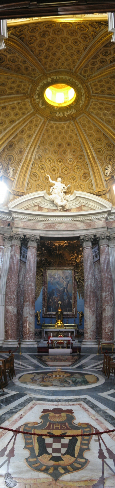 Interior (centre) of the church of Sant'Andrea al Quirinale, Rome, Italy.